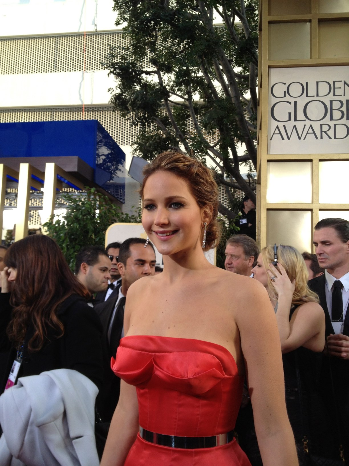 Jennifer Lawrence @ 2013 Golden Globes